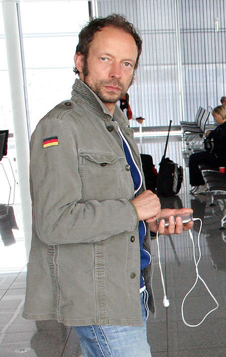 Picture of the musucian and composer Roberto DiGioia